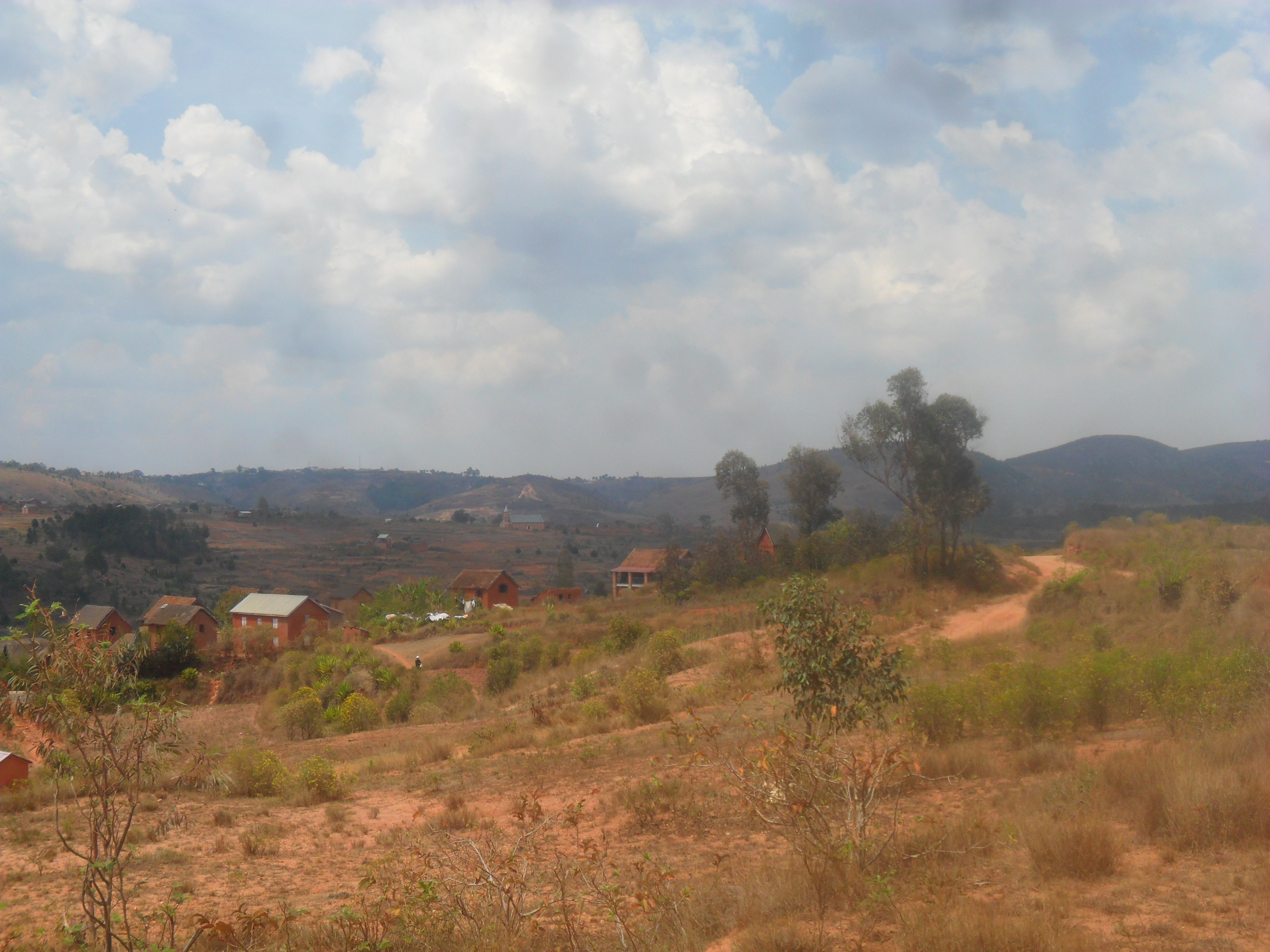 Village of Anjanakarivo Andrefana, Ambohidrabiby, Madagascar Malagasy: Tanànan'Anjanakarivo Andrefana, amin'ny tehezana antsinanana avaratry ny vohitr'Ambohidrabiby.